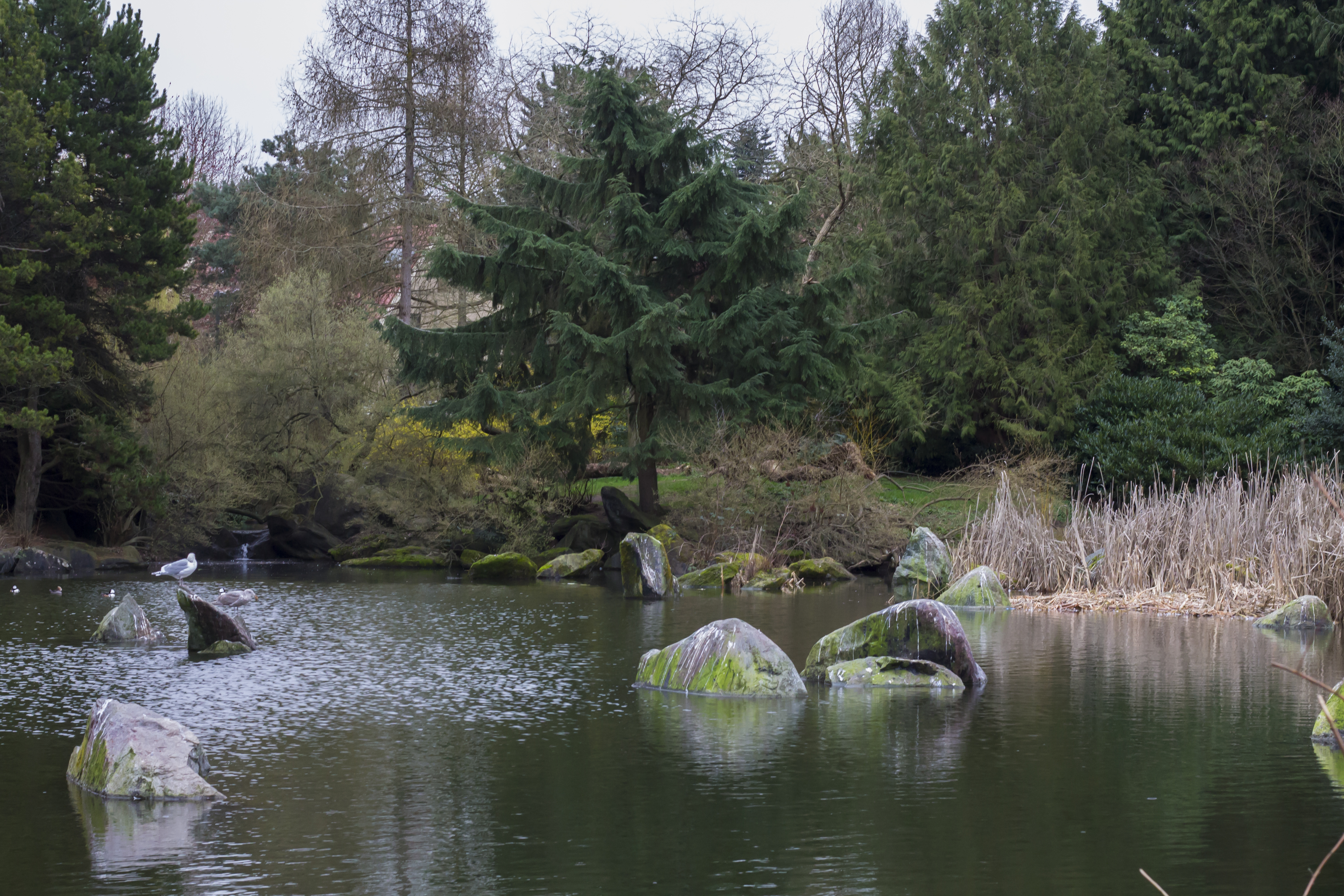 Charleson Park lagoon on a cloudy day